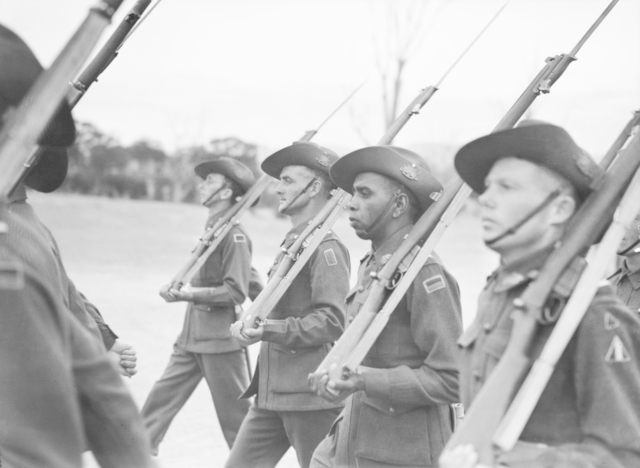 LIEUTENANT (LT) R.W. SAUNDERS, 2/7TH INFANTRY BATTALION (3), IN THE RANKS DURING THE GRADUATION CEREMONY FROM THE OFFICERS' CADET TRAINING UNIT SEYMOUR. IDENTIFIED PERSONNEL ARE:- LT T.J. DONOGHUE (1); LT J.W. THIRKILL (2); LT H.H. WOOLCOTT (4).